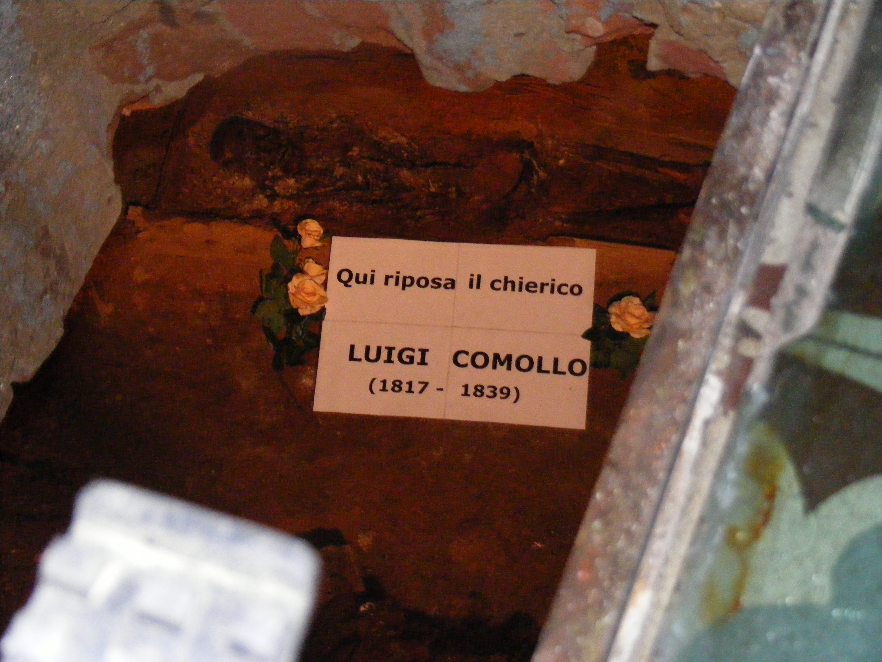 Tomb of Luigi Comollo in the Church of San Filippo, Chieri, Turin, Italy